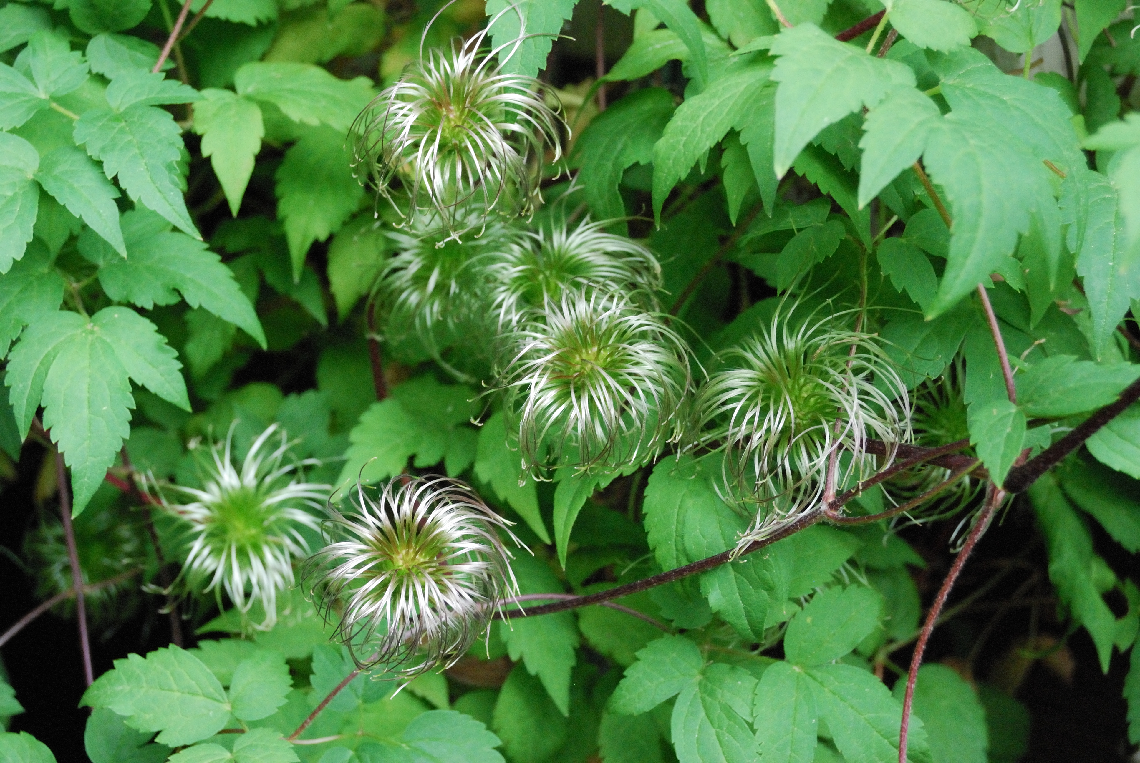 A Clematis tangutica after blooming